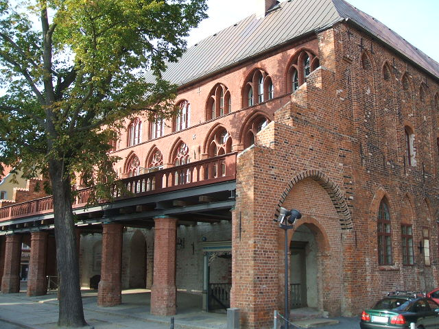 Stralsund,_Germany,_Rathaus,_Balkon_(2006-09-29)